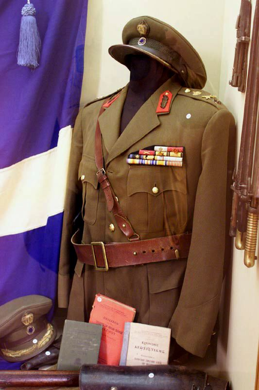 Artifacts from the collection of Vassilios Nikoltsos, image from the War Museum, Thessaloniki, Central Macedonia, Greece